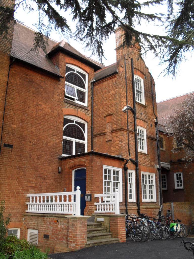 Photograph of Linacre 'Blue Door' entrance, OC Tanner Building, Linacre College